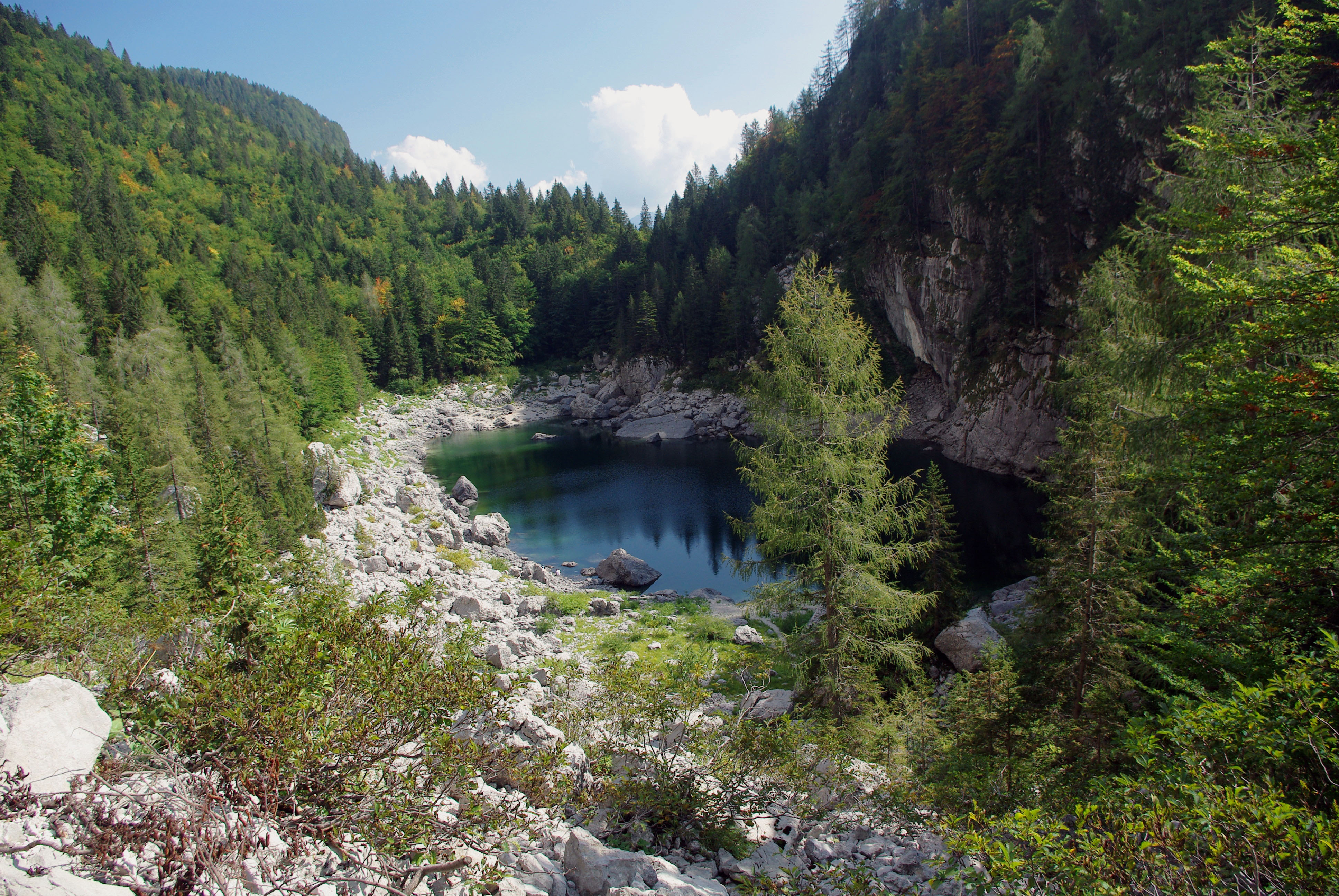 Črno jezero (Black Lake), Triglav Lakes Valley, Slovenia.